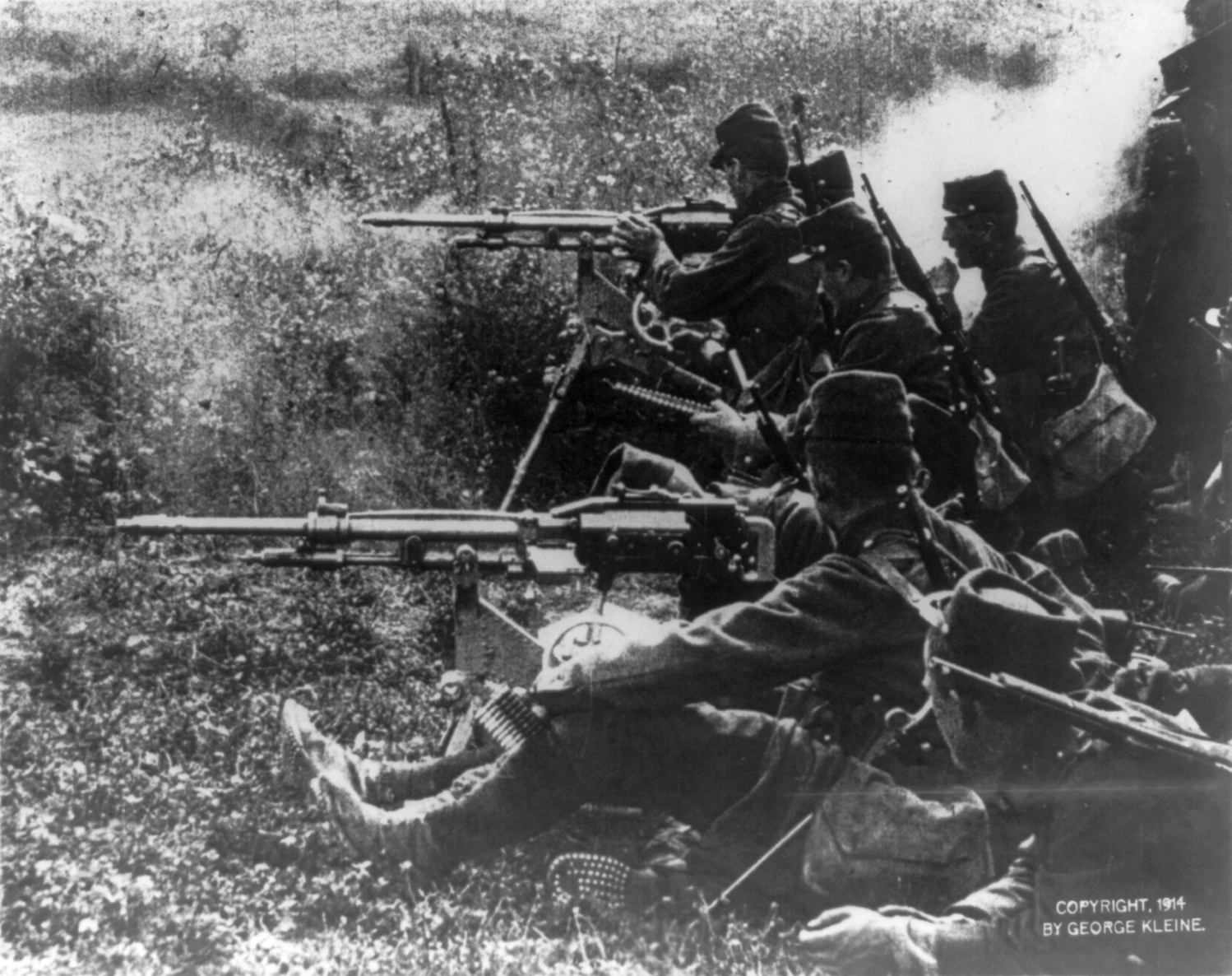 A detachment of French infantry with two St. Étienne Mle 1907 machine guns.